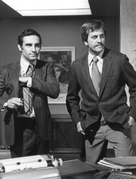 Photo of Tony Lo Bianco and Don Meredith from the television program Police Story.